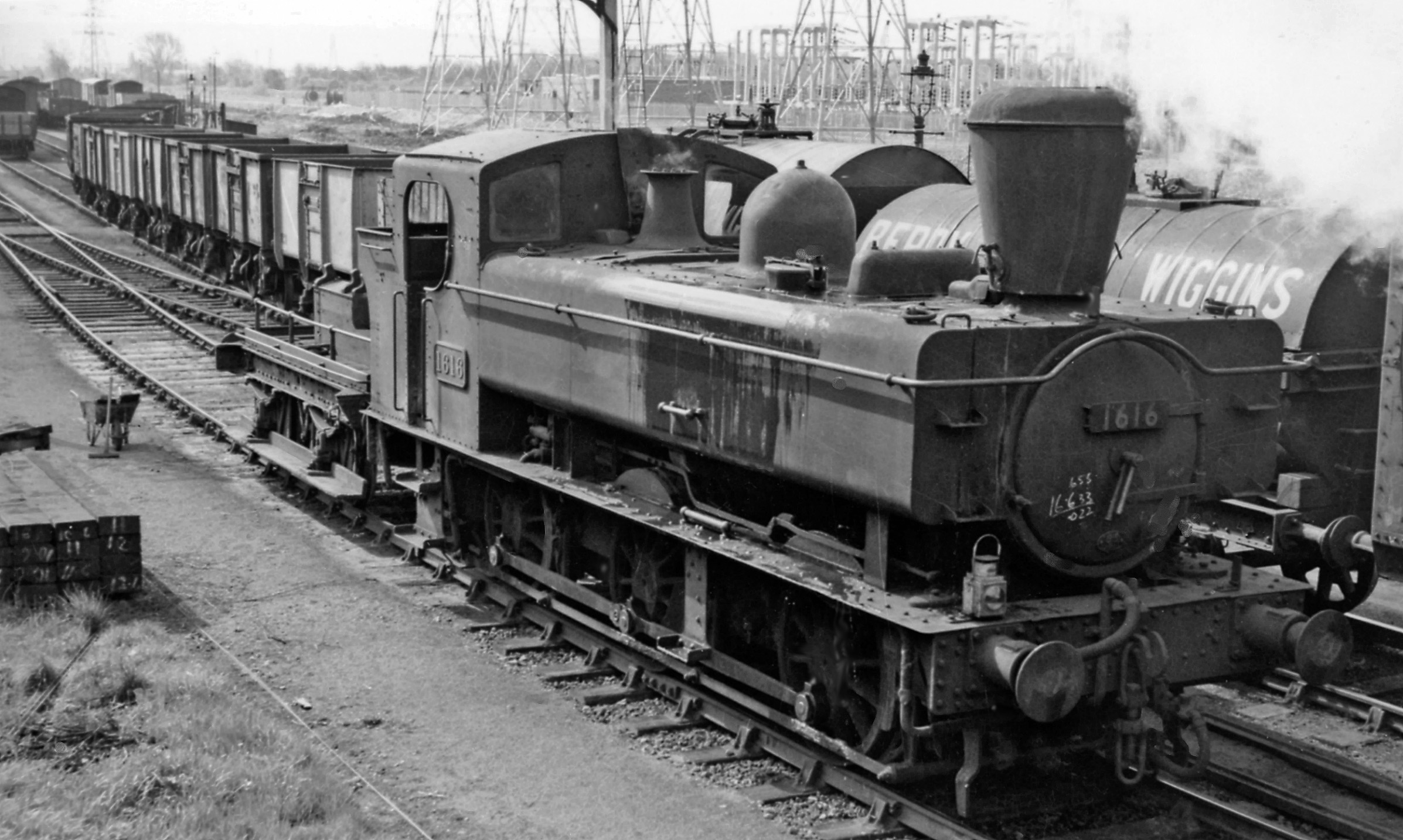 Shunting engine with spark-arrestor at Over Sidings, Gloucester. View SE from near Over Bridge, towards Gloucester Docks on the Over Branch, ex-GWR. Gloucester Docks was served by this branch from Over and also by an ex-Midland branch to the south at High Orchard and from Tuffley. 'Modern' '1600' class 0-6-0T No. 1616 (built 12/49, withdrawn 10/59) has a spark-arrestor because of all the timber traffic dealt with at the Docks.